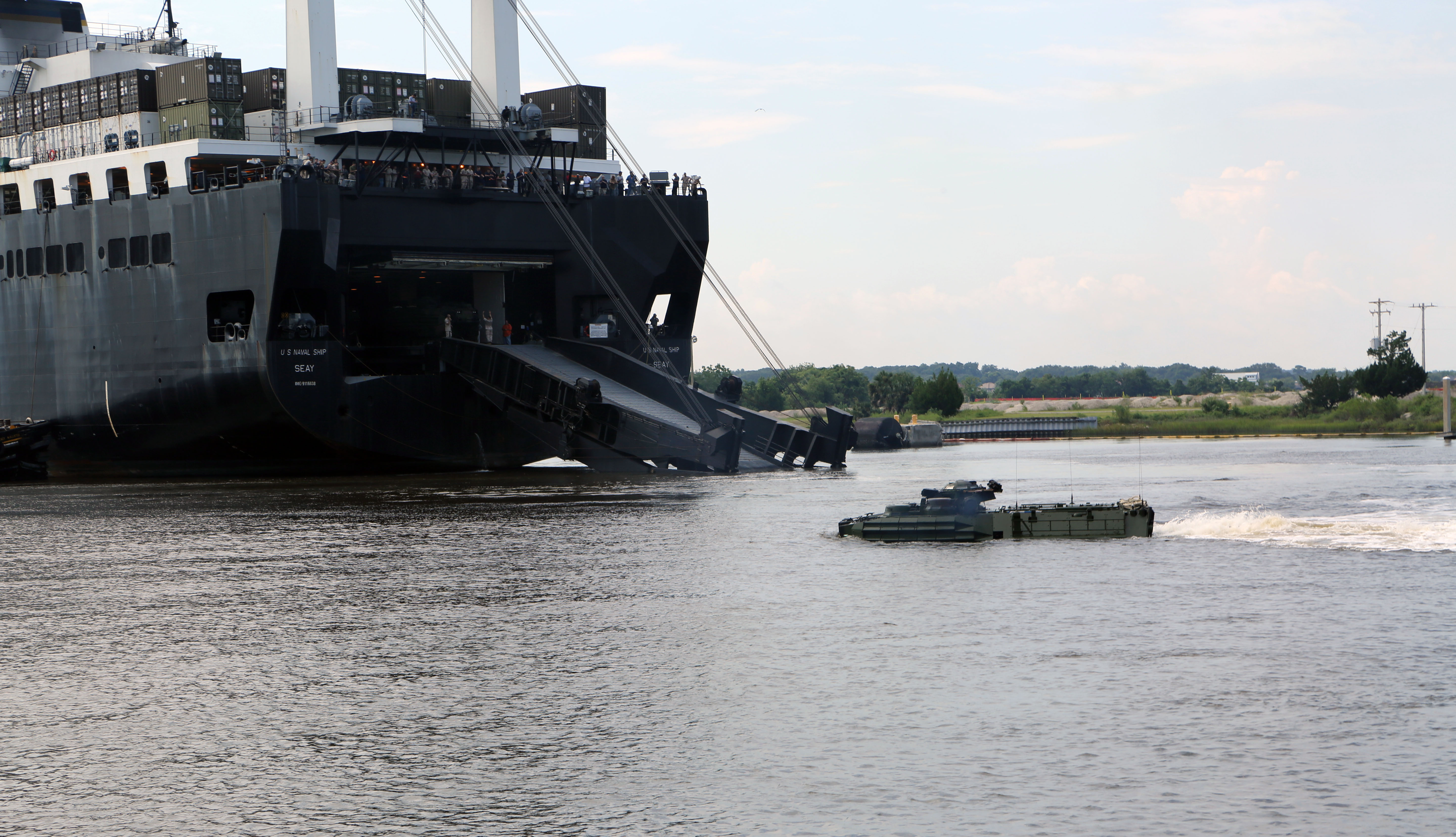 JACKSONVILLE, Fla. - Marines with 4th Assault Amphibian Battalion, 4th Marine Division, drive an amphibious assault vehicle off the back of the USNS SEAY, a Maritime Prepositioning Ship, at Blount Island in Jacksonville, Fla., Aug. 13, 2014. The Reserve Marines of 4th AAV Bn. conducted the training to increase proficiency in ship-to-shore operations and work on interoperability with the U.S. Navy. Photo By: Lance Cpl. Sara Graham Other information Photo By: Lance Cpl. Sara Graham